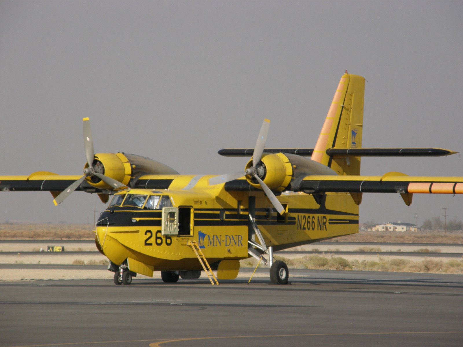 CL-215 Scooper from the Minnesota Department of Natural Reaources at Fox Field, Lancaster California, during the October 2007 Southern California Wildfires.